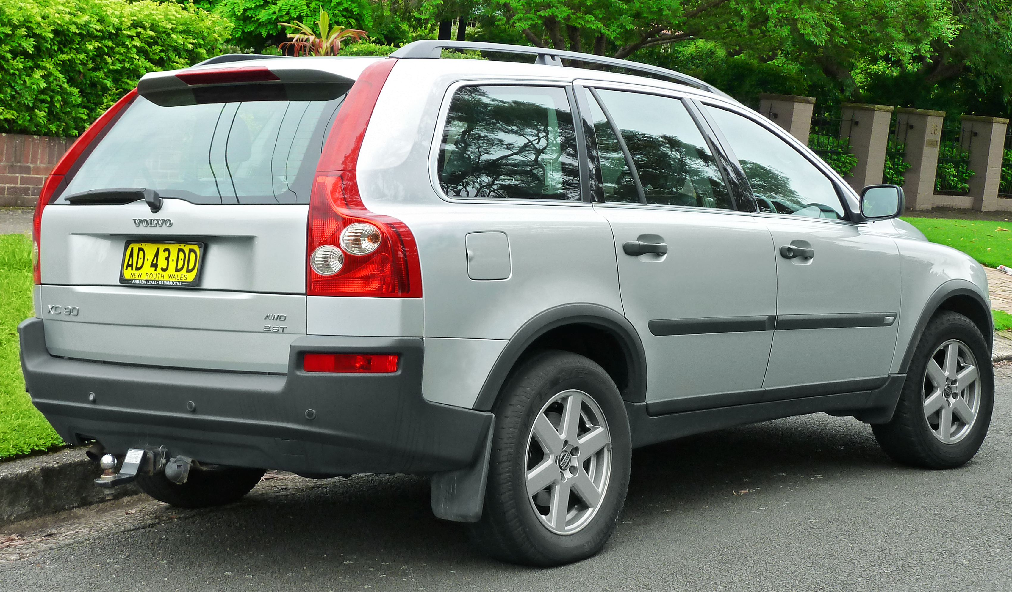 2005 Volvo XC90 (P28 MY05) 2.5 T wagon. Photographed in Lindfield, New South Wales, Australia.